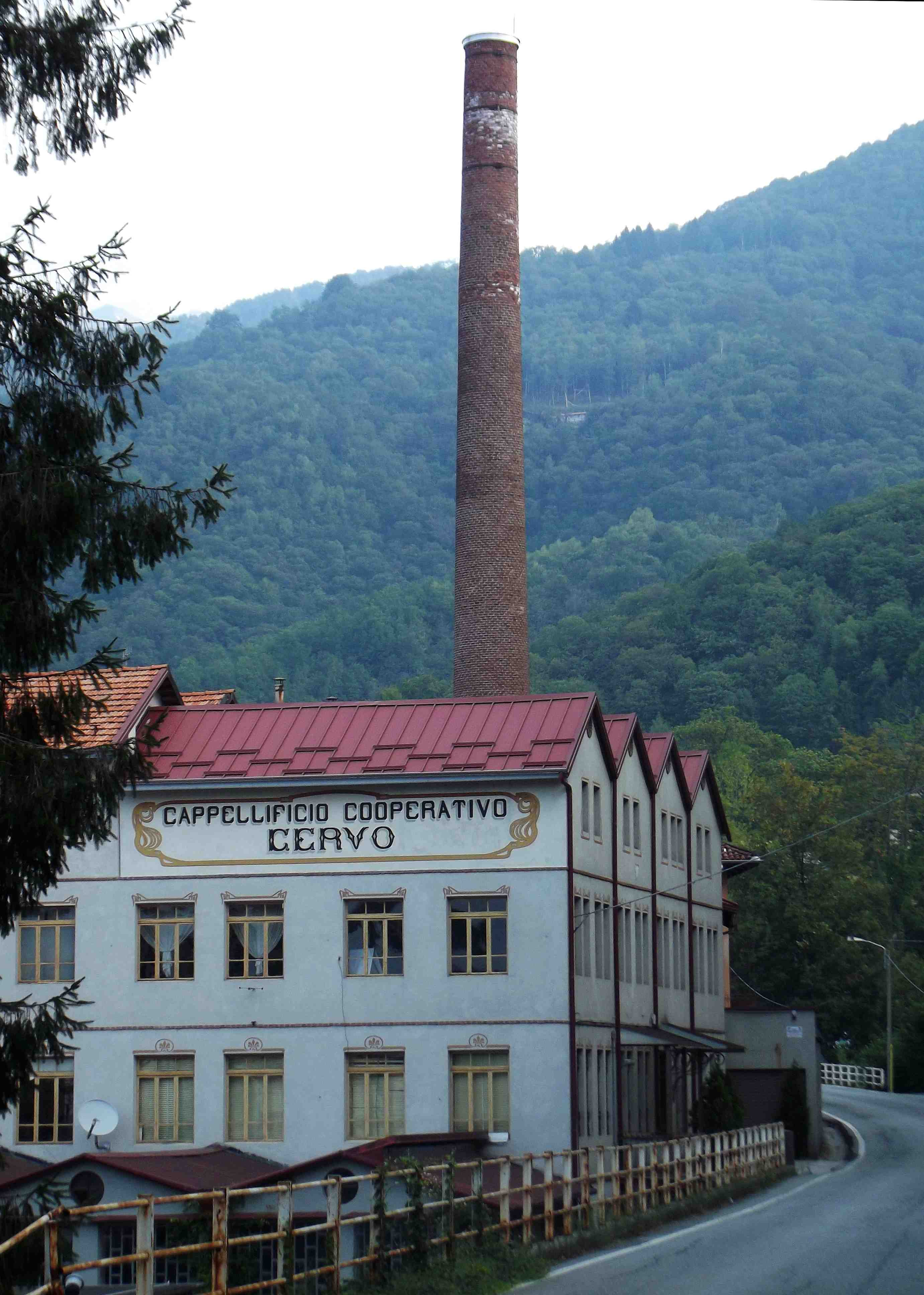 Cappellificio cooperativo Cervo: Sagliano Micca factory (BI, Italy)